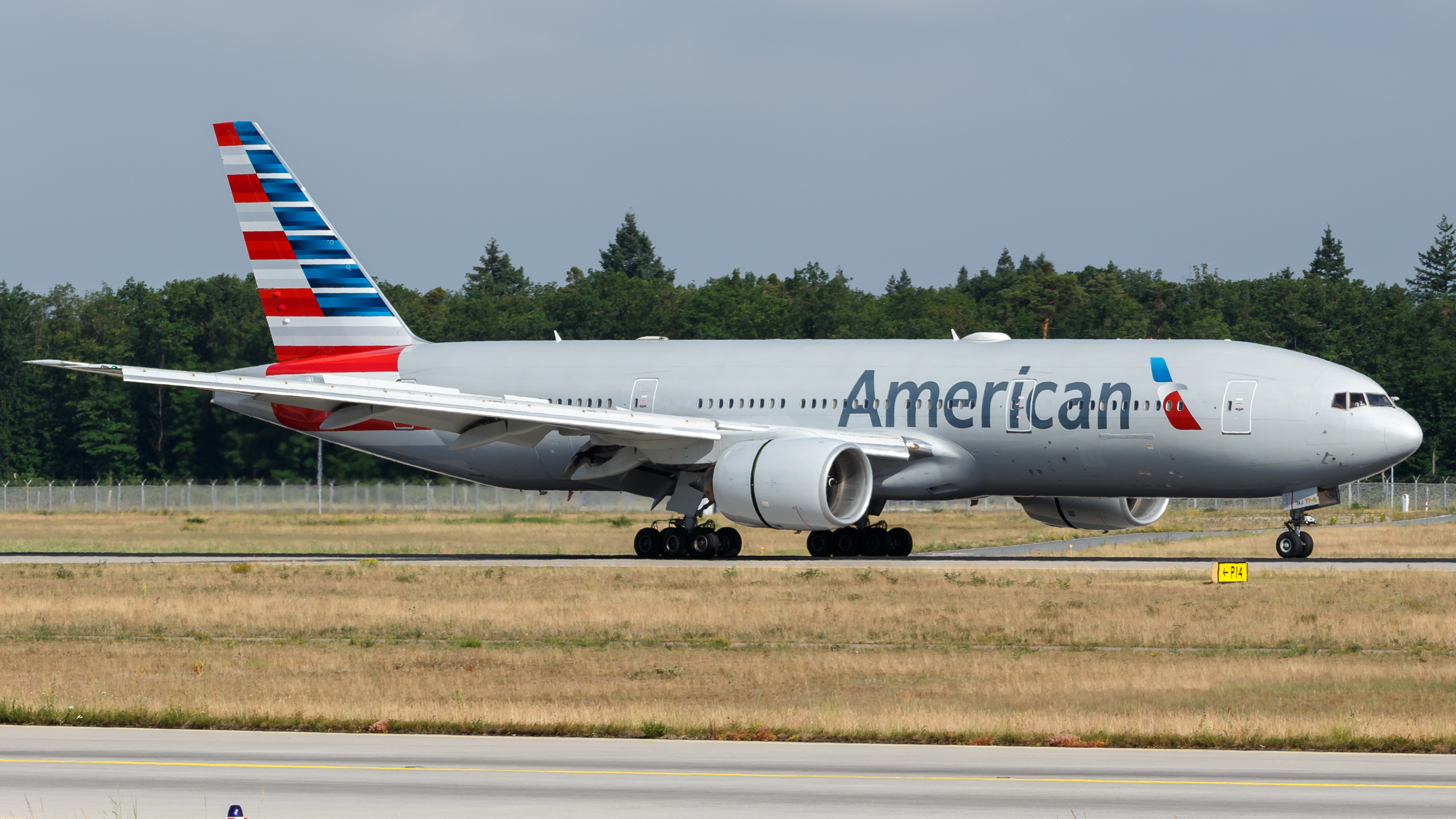 American Airlines Boeing 777-300ER at Frankfurt Airport